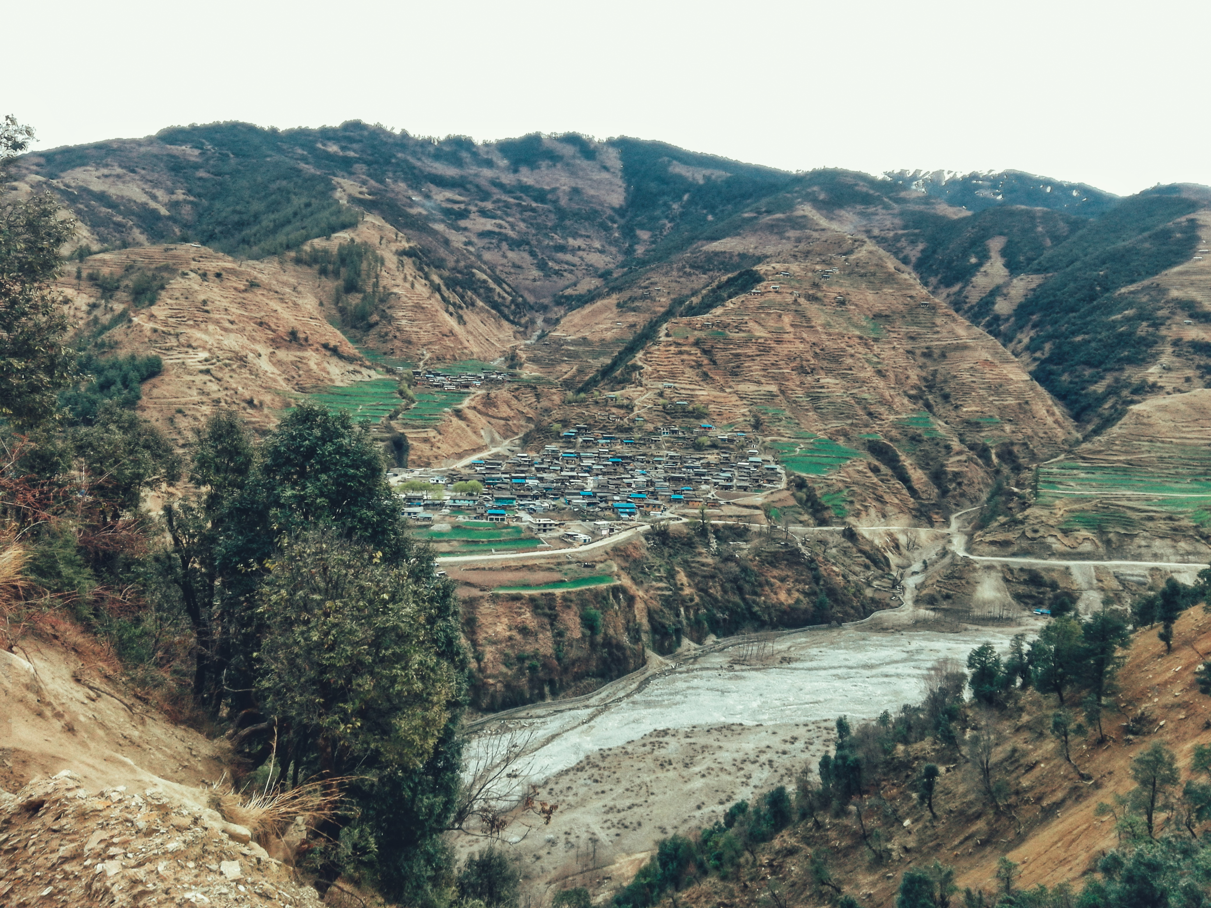 Thawang Village from where Nepalese Civil war was started